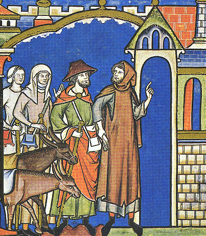 "A Levite and his wife are given lodging in the city of Gibeah."